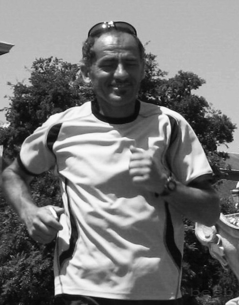 Yiannis Kouros in Kesztehly, Hungary after winning a 212km race around Lake Balaton, Hungary in 2008.